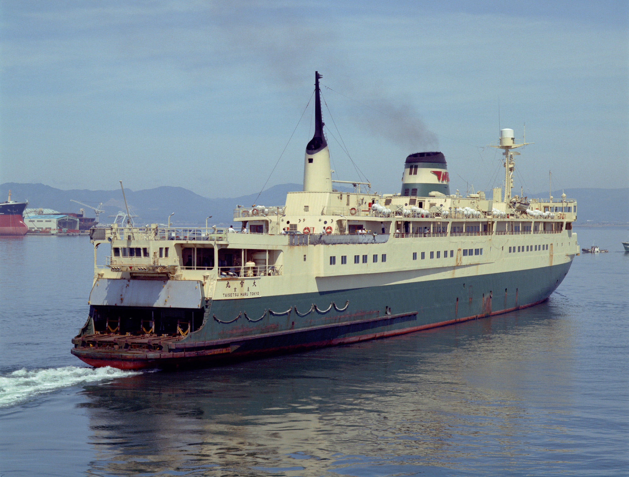 MS TAISETSU MARU2 leaving from Hakodate pier as trip No.154